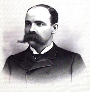 John McGraw, King County, Washington sheriff during the anti-Chinese riot in Seattle, Washington 1886; later a lawyer, second governor of Washington State, and a businessman, in that sequence. There is a statue of him in Seattle's Times Square, by the Westin Hotel.